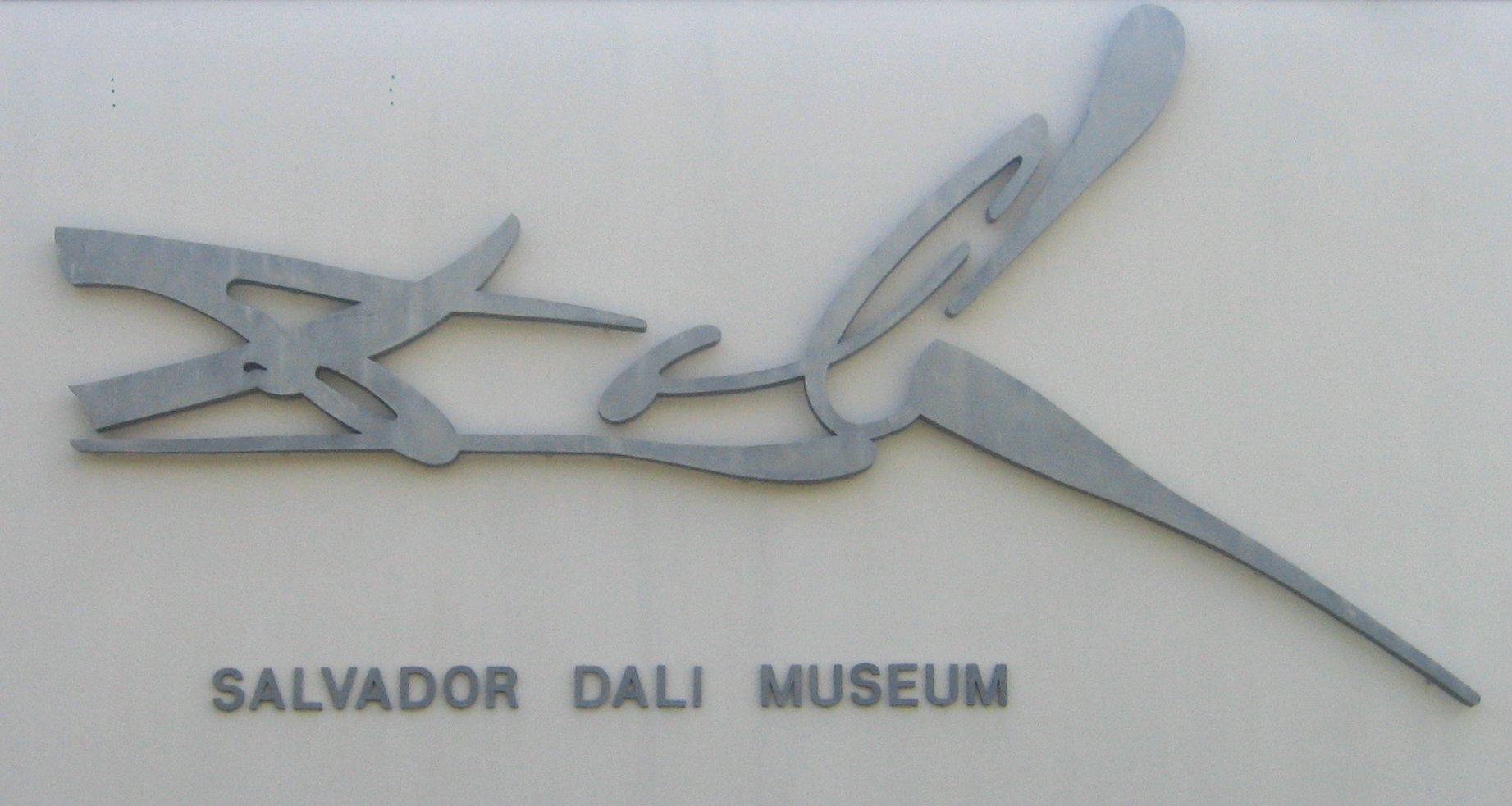 Picture taken at the Salvador Dali Museum of a closeup of Dali's signature on the outside wall.